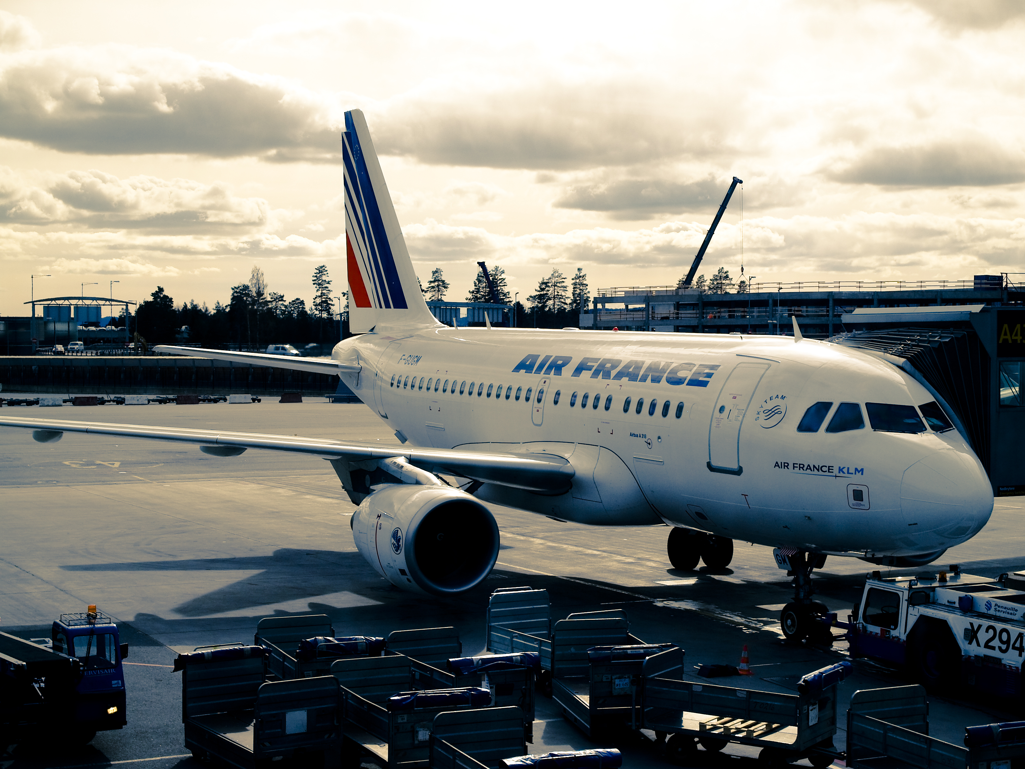 Air France Airbus A318 flight AF2374 to CDG at Oslo Airport, Gardermoen.